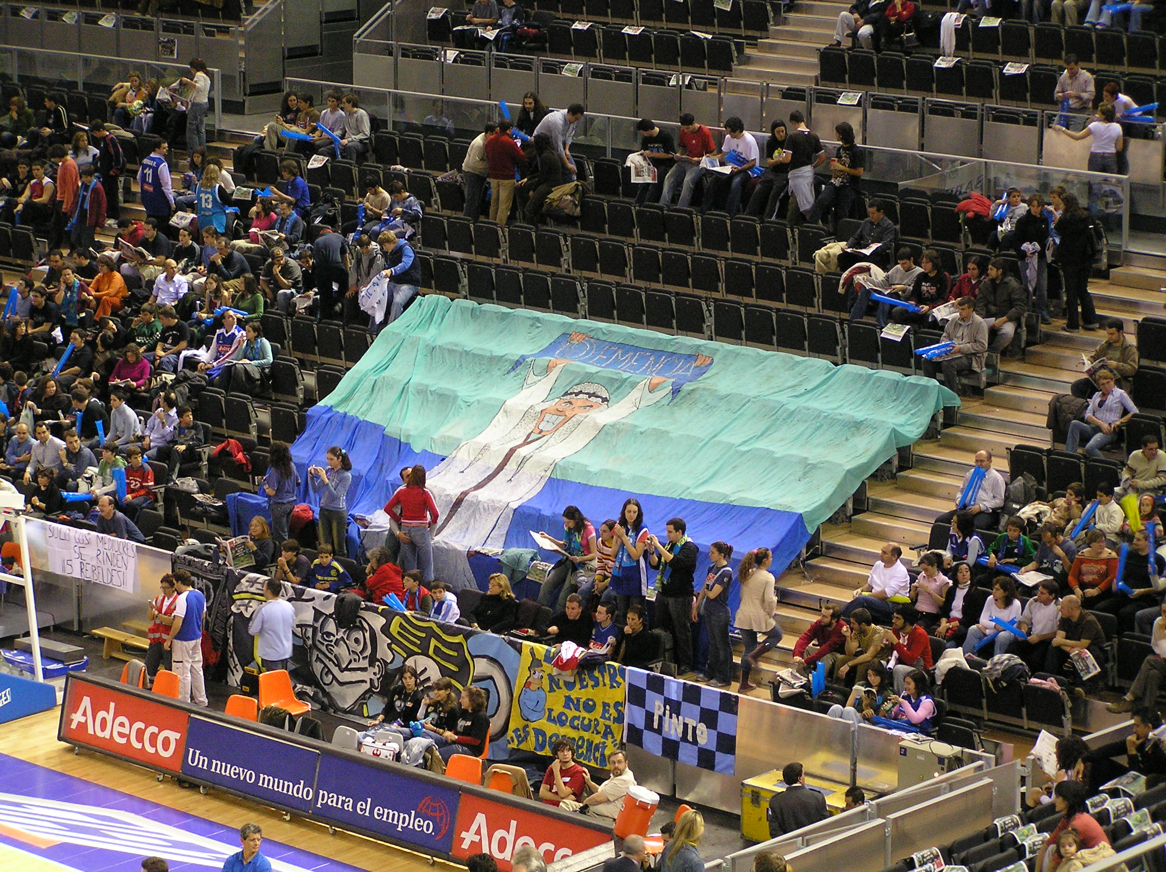 Demencia supporters in the Madrid Arena (Madrid, Spain) Author: Mr. Tickle Date: 19th November, 2005